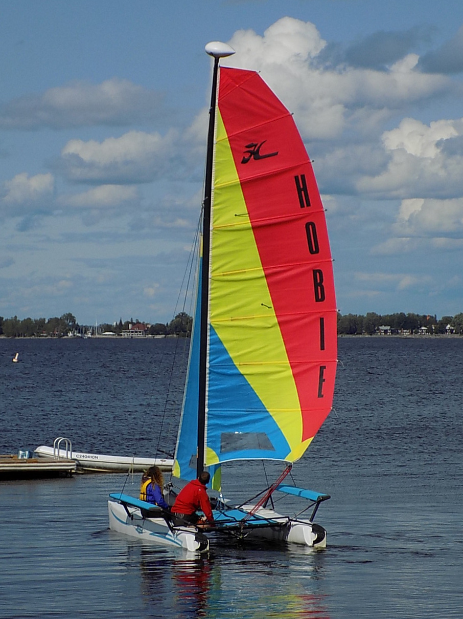 A Hobie Getaway catamaran sailboat.